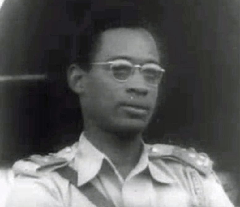 Colonel Mobutu watches Lumumba's transport to Thysville